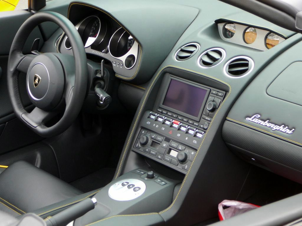 Interior shot of a Lamborghini Gallardo E-Gear